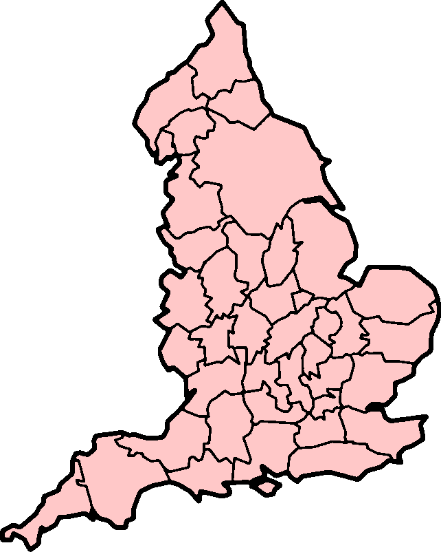 England Traditional Blank